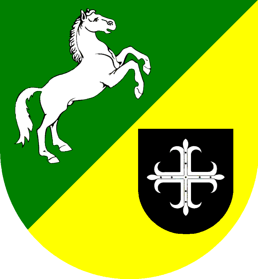 Coat of arms of the municipalitie Badendorf in Schleswig-Holstein, Germany.